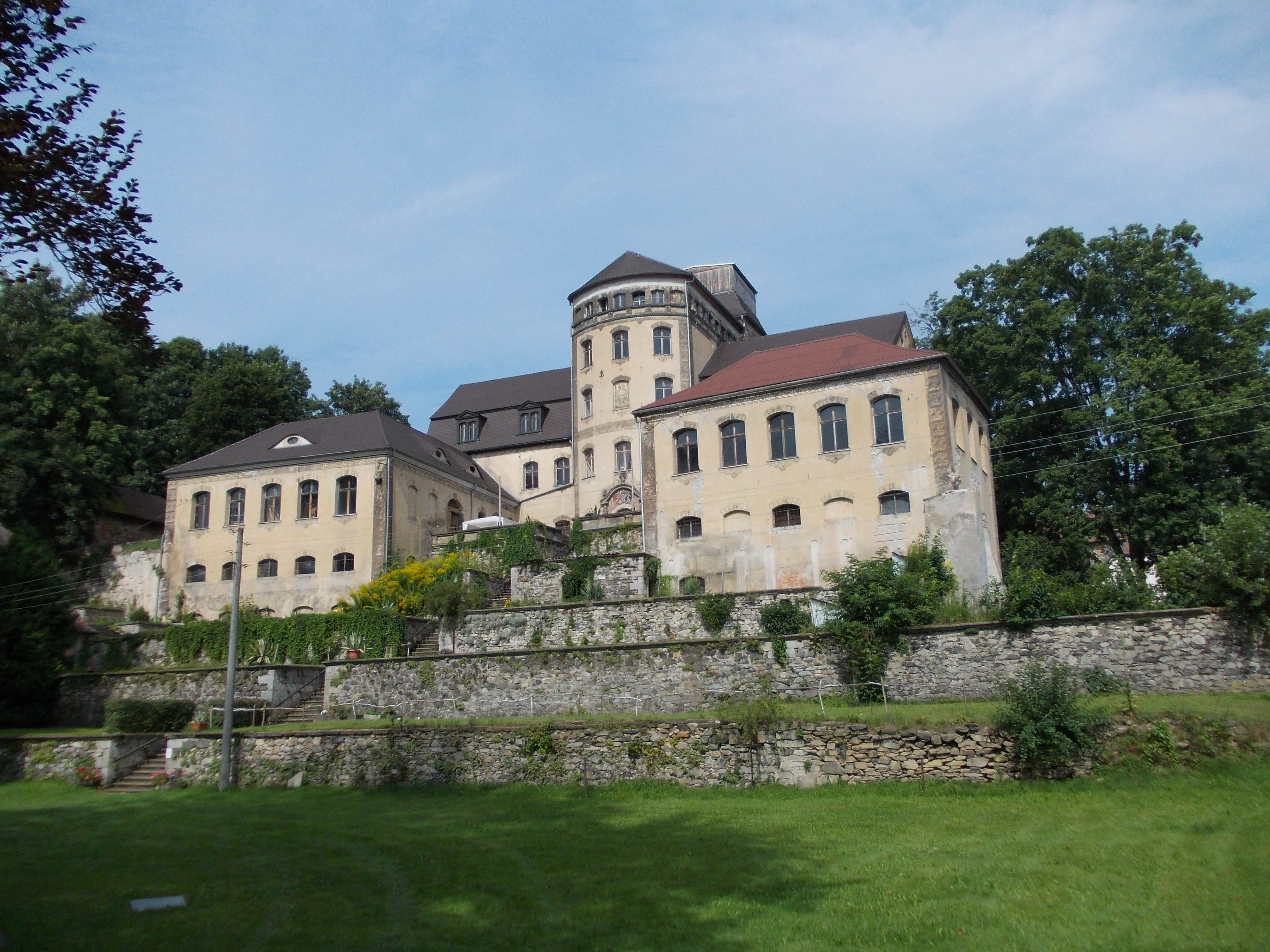 Hainewalde Castle (Görlitz district, Saxony)